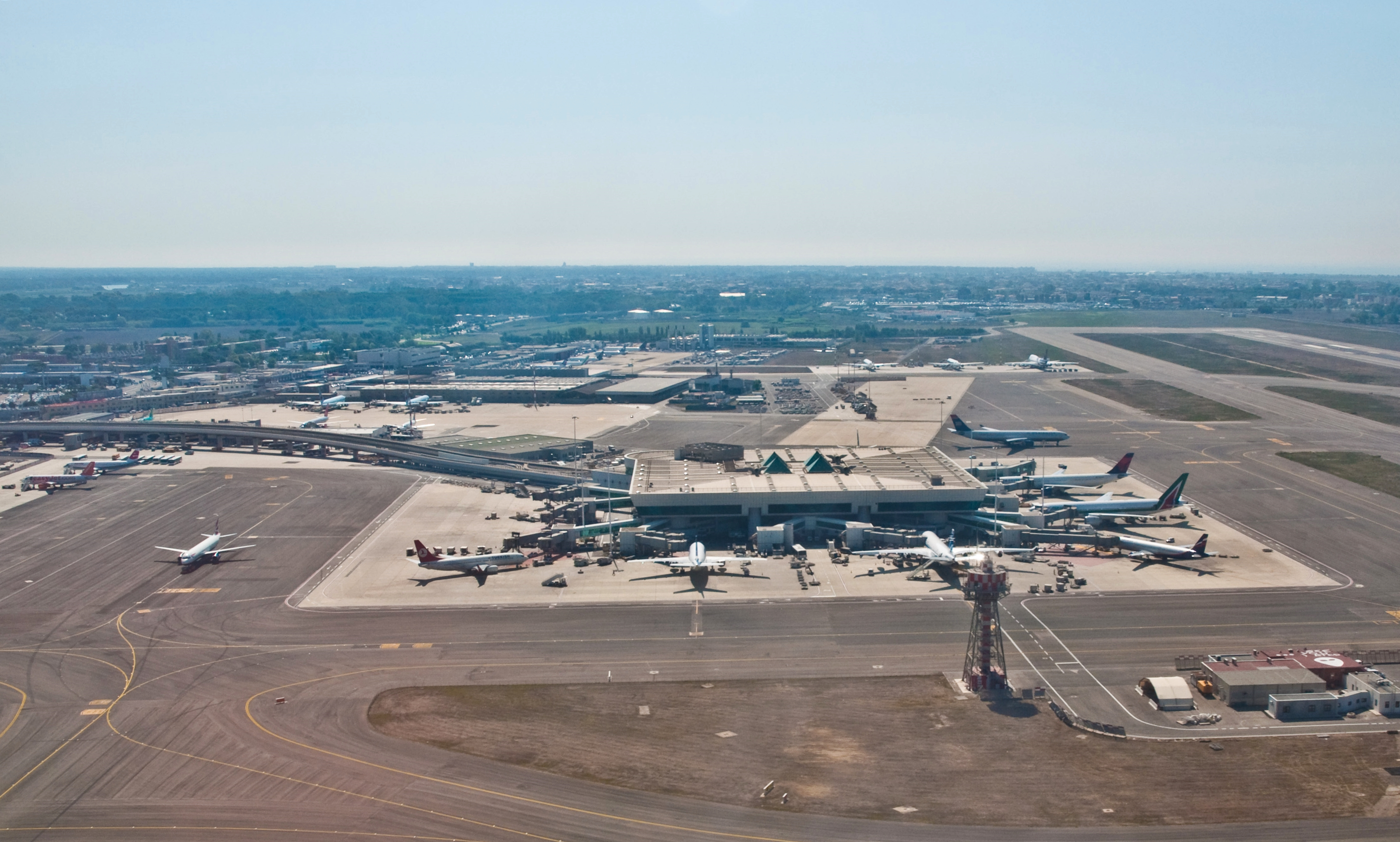 Departing for Gatwick on a BA 737